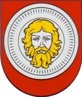 Coat of arms of Nitrianske Pravno.